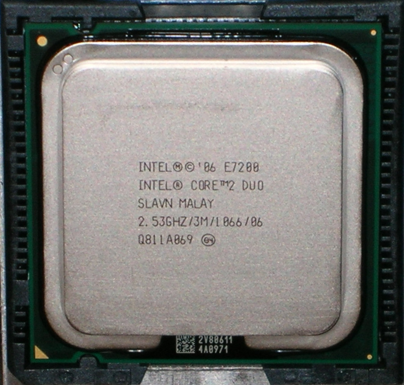 Intel Core 2 Duo E7200 Wolfdale Processor